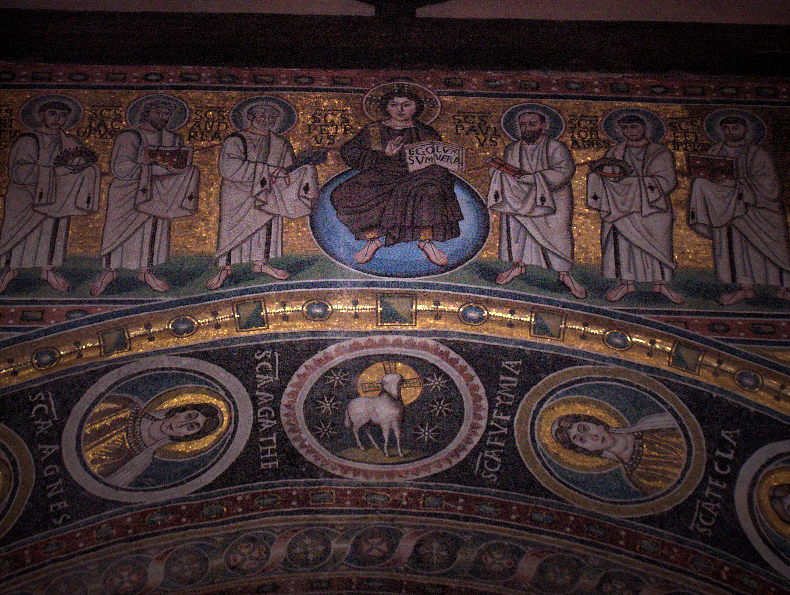 Mosaic with young Christ holding a book with the text "Ego sum lux vera" (I am the true light); on His left and right : six apostles;apse of the St. Euphrasius basilica, Poreč, Croatia